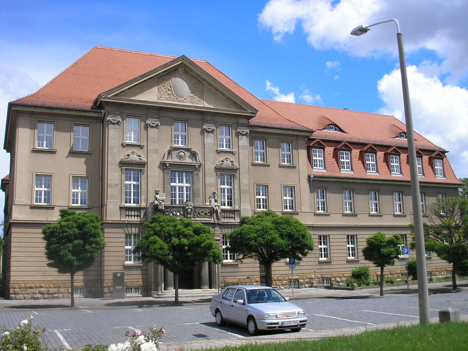 District court of Zeitz